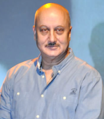 Anupam Kher at 300th show of Anupam Kher's play 'Kucch Bhi Ho Sakta Hai'